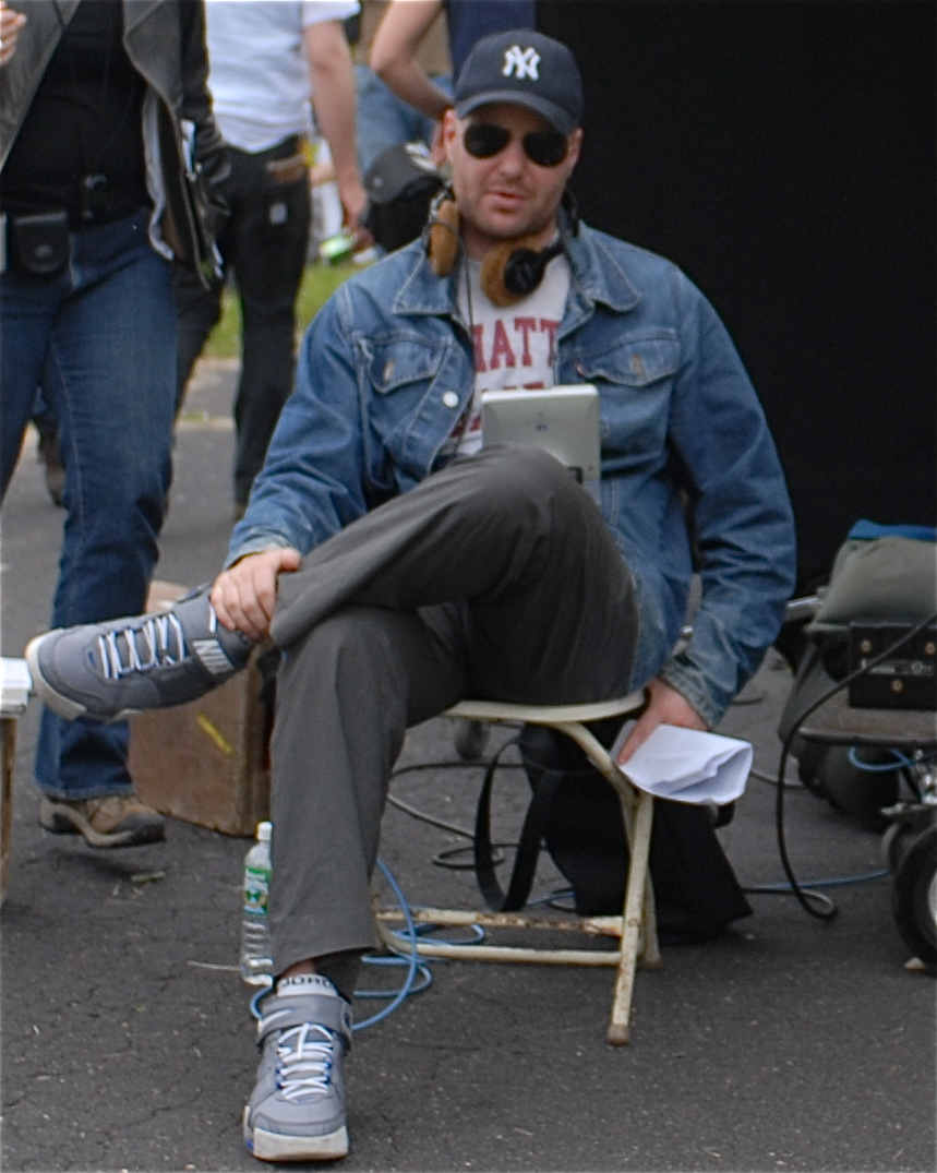 Noah Buschel, American film writer/director